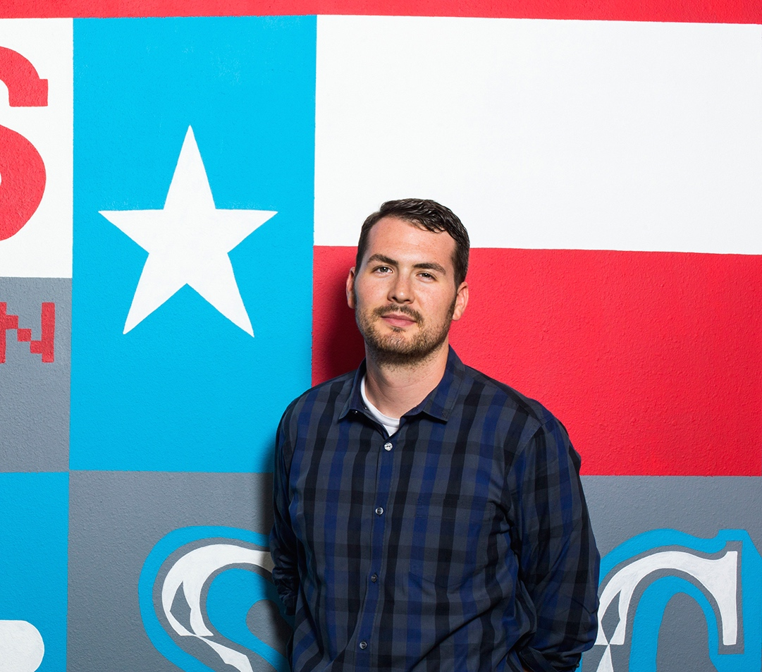 Vincent Harris, CEO of Harris Media at the office.